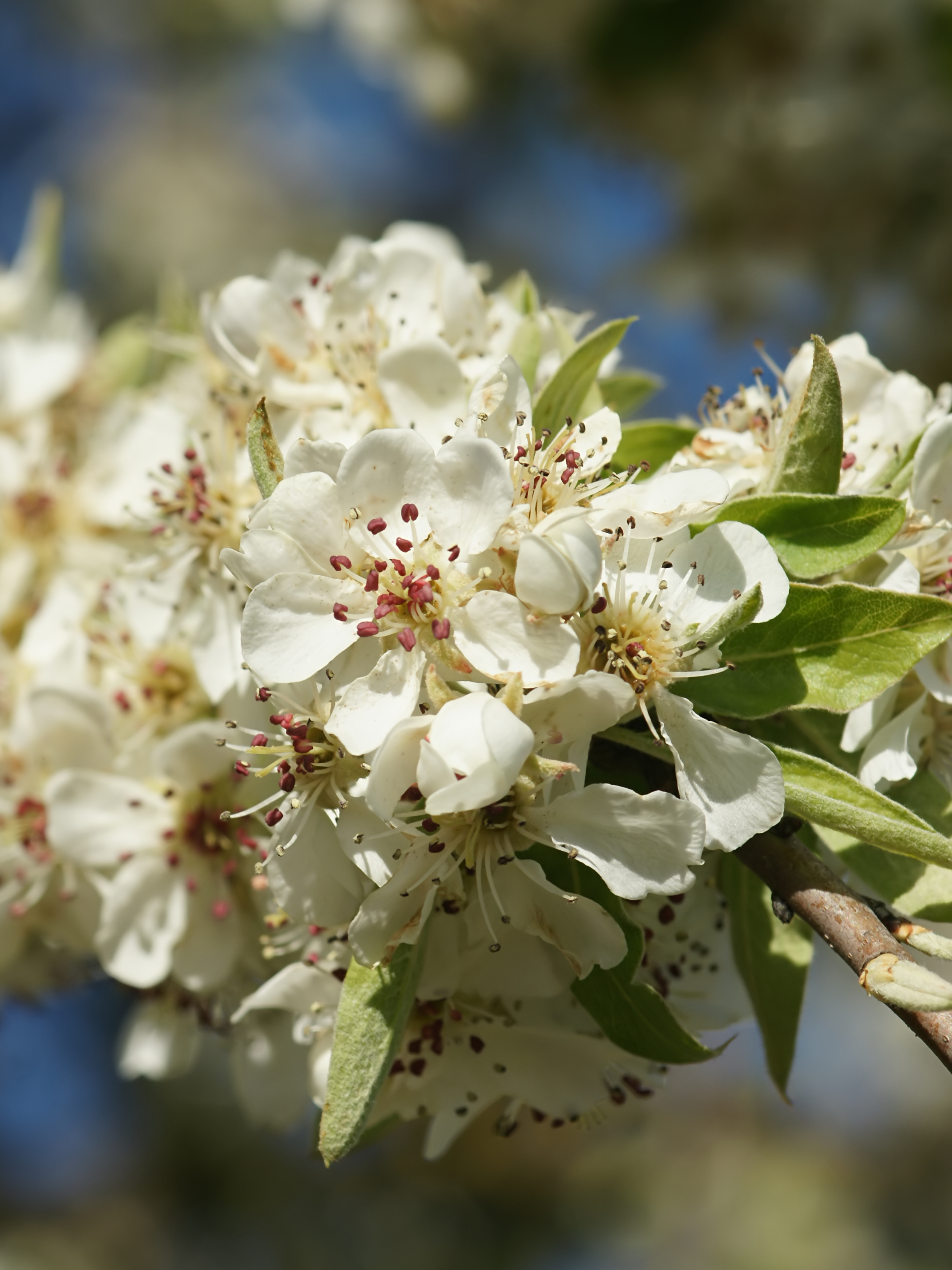 Almond-leaved Pear close to Urzulei on the SS125 road, Sardinia, Italy